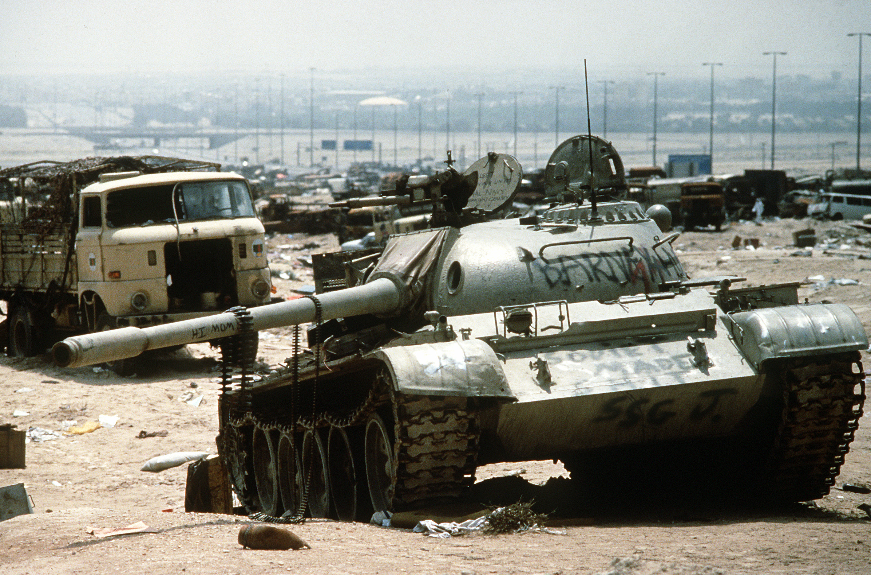 A destroyed Iraqi T-55 main battle tank, painted with graffiti by Coalition troops, lies amidst other destroyed vehicles along the highway between Kuwait City and Basra, Iraq, following the retreat of Iraqi forces from Kuwait during Operation Desert Storm. An IFA truck is behind. VIRIN: DF-ST-92-08469